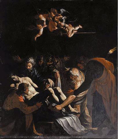 The Deposition